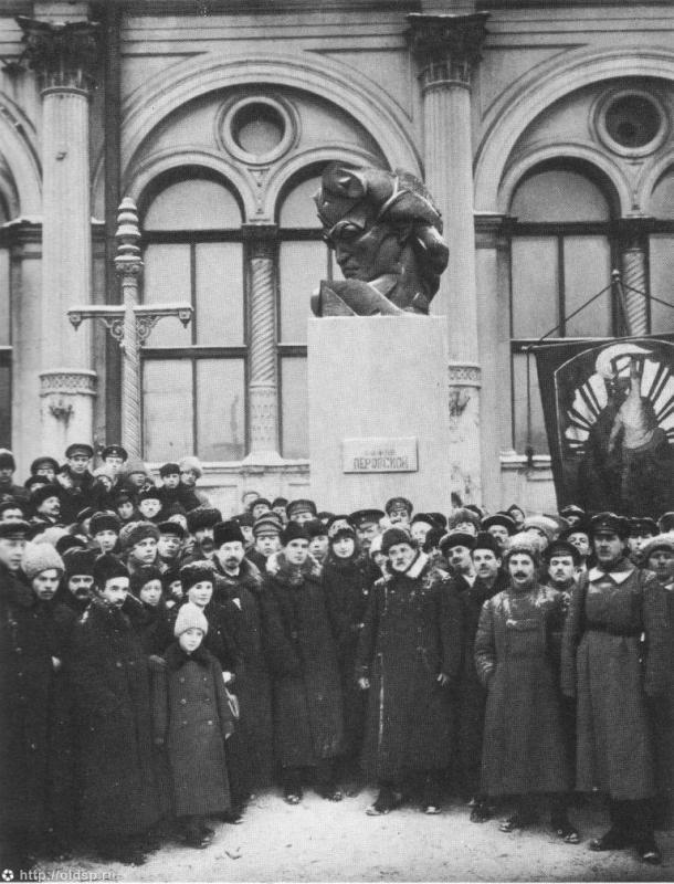 Opening of the monument to Sophia Lvovna Perovskaya in St. Petersburg (1918, later destroyed). In the first row might be seen Zlata Lilina (with her son Stefan), Anatoliy Lunacharskiy, Italo Orlando Griselli (the author of the monument) and Nikolai Morozov.